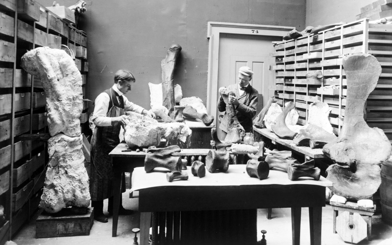 Elmer S. Riggs (right) and James B. Abbott (left) working on Brachiosaurus altithorax bones–and other sauropods from Grand Junction, Colorado–back in Chicago, courtesy The Field Museum in Chicago